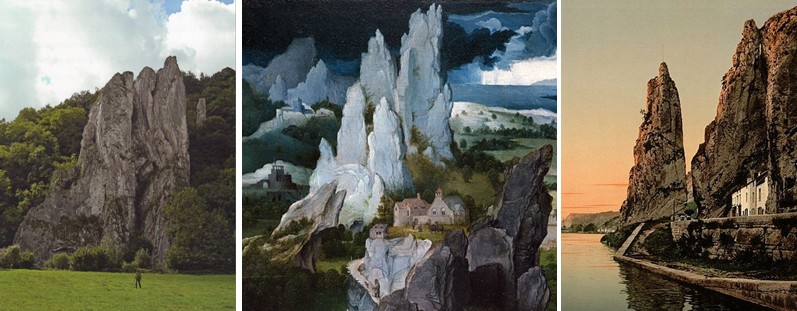 Comparative collage: the "roche-a-Chandelle" (left), rockers Patinir crags in the table "Landscape with San Jerónimo", of the National Gallery (Center), and the "Bayard" rock, on the banks of the Meuse River, in Dinant (Belgium) (right side).